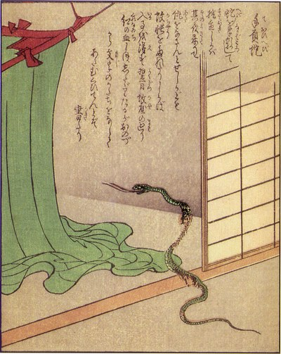 Teoi-hebi (手負蛇, a wounded snake) from the Ehon Hyaku monogatari (絵本百物語)